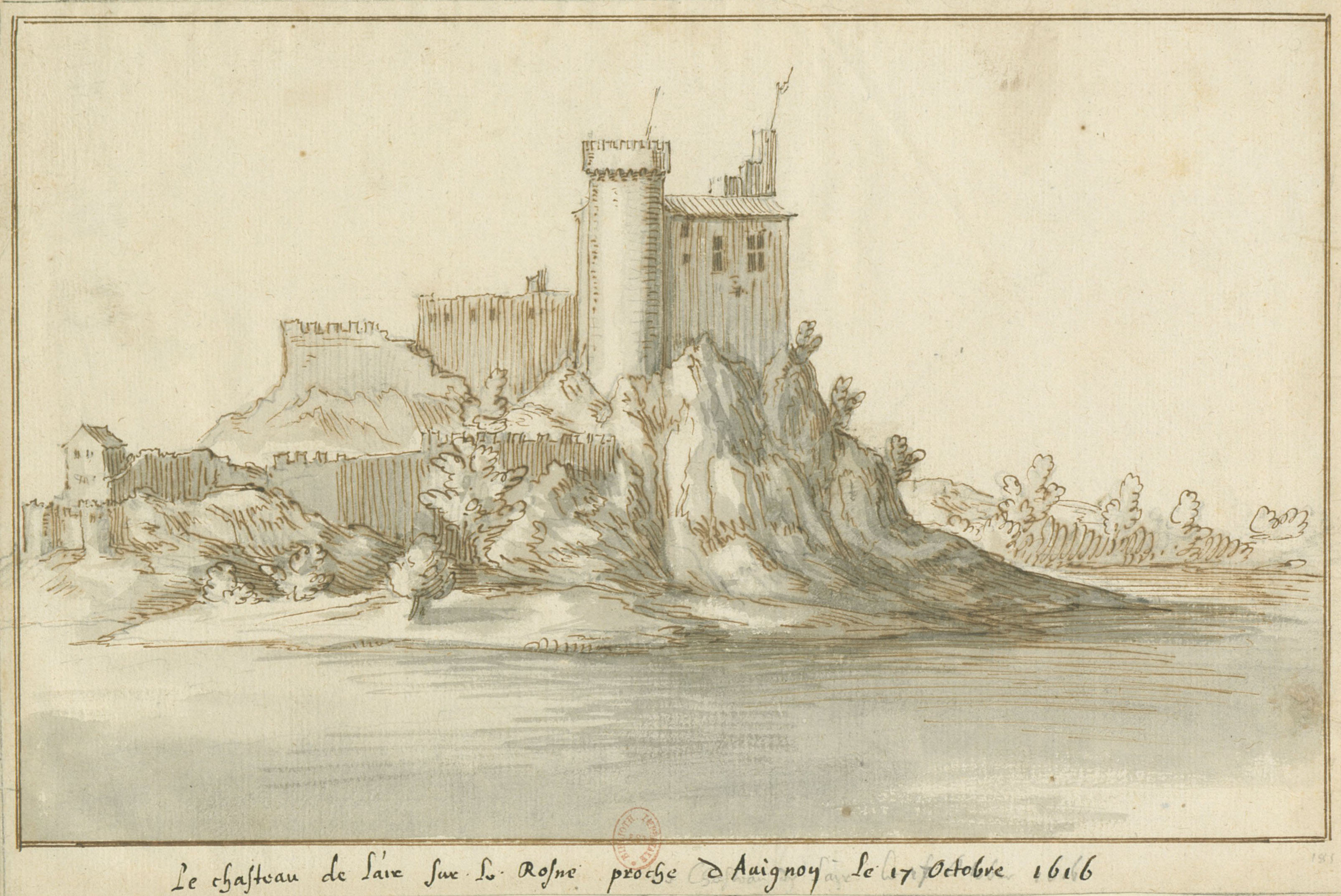 Château de l'Hers on the left bank of the Rhône within the commune of Châteauneuf-du-Pape. The castle is viewed from the southeast. Although a castle on the rocky outcrop existed by the 10th century, the surviving ruins date from no earlier than the 12th century while the round tower dates from the end of the 14th or the beginning of the 15th century.